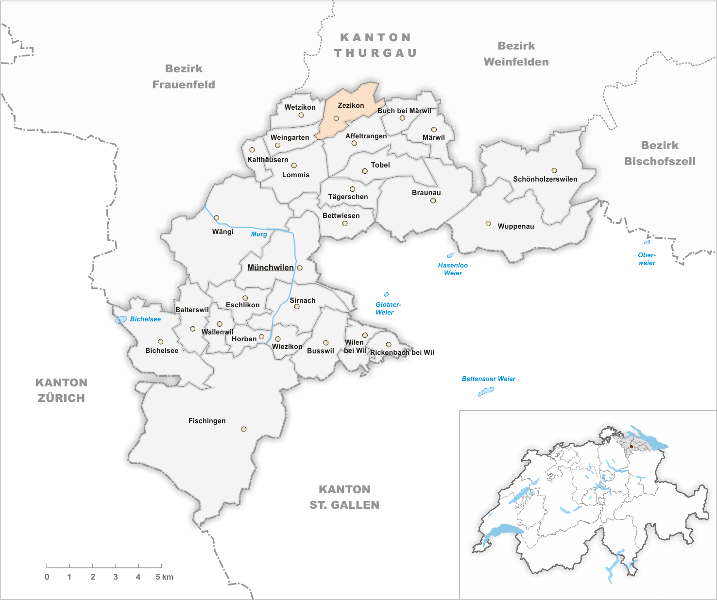 Municipality Zezikon